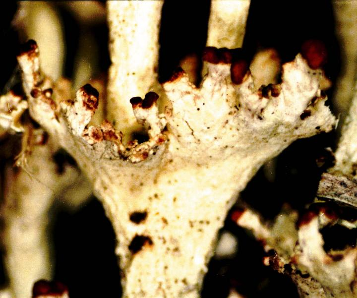 Cladonia rappii A. Evans, 1952 (photograph of a herbarium specimen taken through a dissecting microscope (x15) showing the proliferation of a second tier from the center of a cup) Growing in dryish, acid, sandy soil under Pinus virginiana on Route 313, about 2 miles S of Sharptown, Wicomico County, Maryland, USA; collected and identified by Elmer G. Worthley (No. L-73, 20 Jun 1984); specimen is now in the Lichen Herbarium of the New York Botanical Garden.